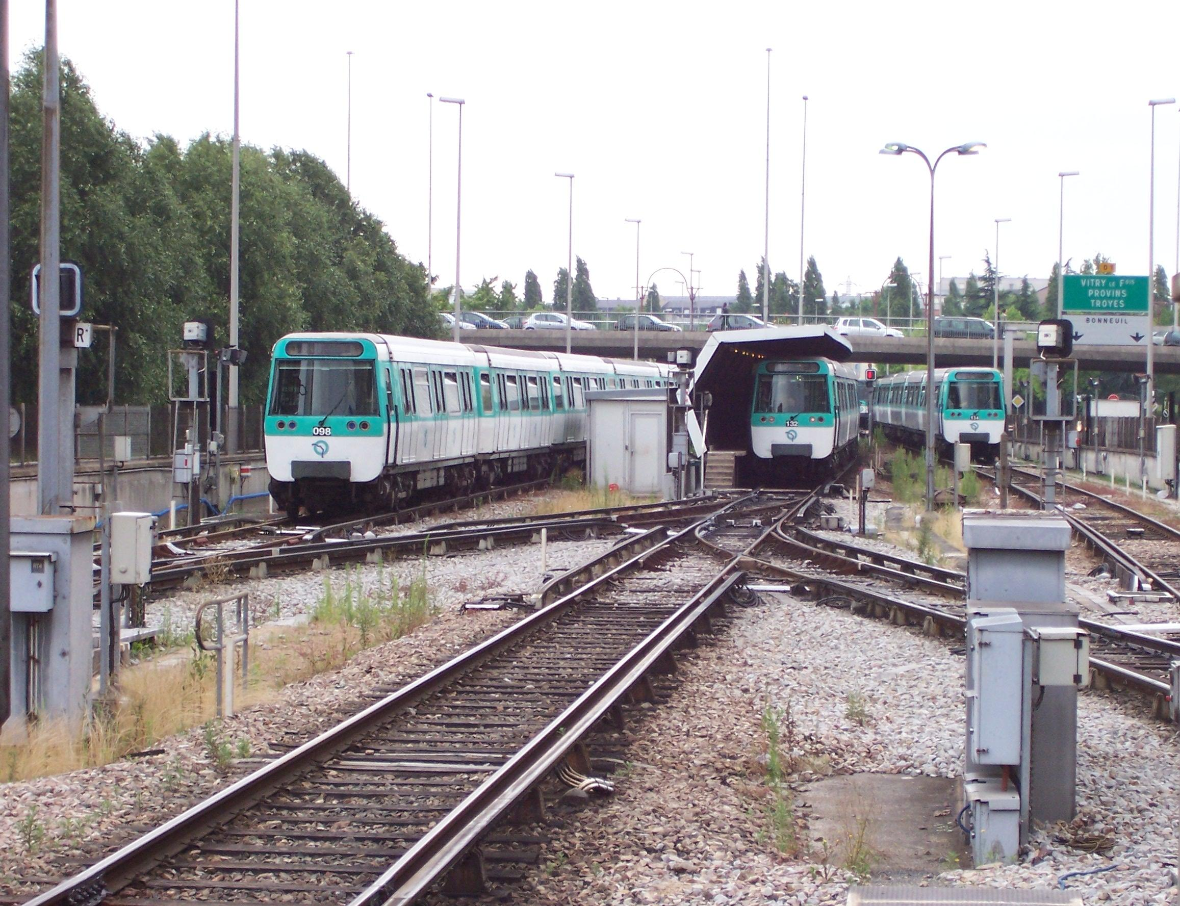 The open-air tracks in the new terminus Créteil - Préfecture. Ways out of drawer beyond the terminus Créteil - Préfecture.